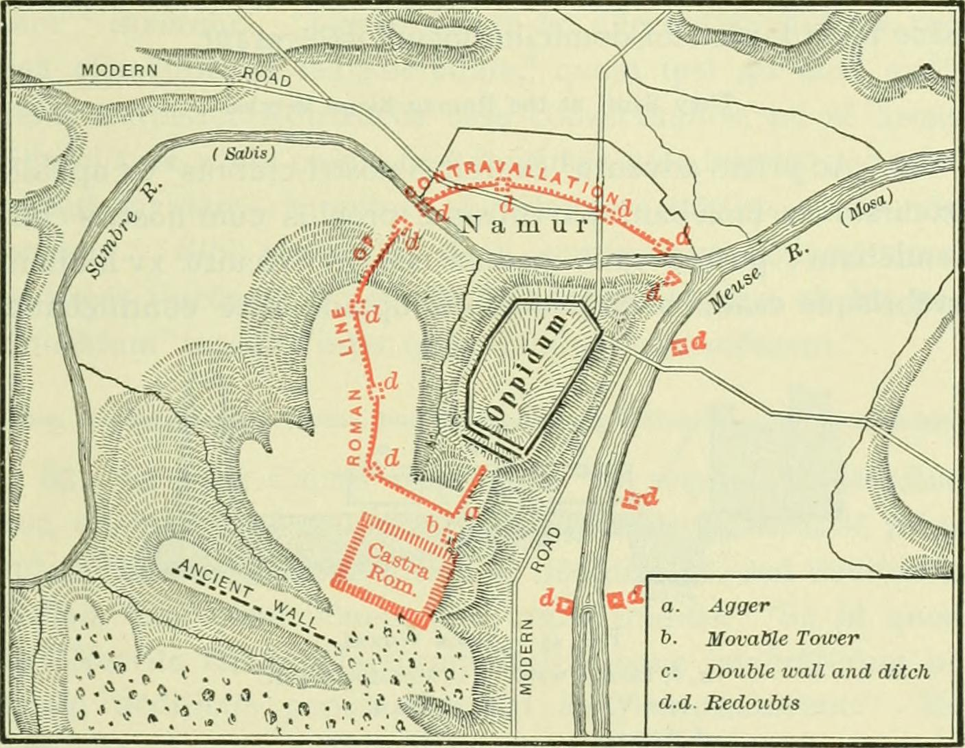 Title: Caesar's Gallic war; (Allen and Greenough's ed.) Year: 1898 (1890s) Authors: Caesar, Julius Subjects: Publisher: Boston, Ginn & co. Text Appearing Before Image: B. G. II. 29.) The Belgiati Confederacy. 69 tur, diligentissime conservavit suisque finibus atque oppidisuti iussit, et finitimis imperavit ut ab iniuria et maleficio sesuosque prohiberent.^ The Aduatuci Withdraw to a Strongly Fortified Position.Account of their Origin. 29. Aduatuci, de quibus supra diximus, cum omnibusc5piis auxilio Nerviis venirent, hac pugna nuntiata ex itinere 5domum reverterunt; cunctis oppidis castellisque^ desertis Text Appearing After Image: Fig. 42. —Siege of the Stronghold of the Aduatuci. sua omnia in ijnum oppidum egregie natiira miinitum contu-lerunt.^ Quod cum ex omnibus in circuitu partibus altissi-mas rupis despectiisque haberet, una ex parte leniter* Cf. ^ prohibuerint, p. 51, 1. 5. — ^ castellum, 56, 2. — 3 contulissent,58, 10.—* leniter, 54, 21. fO TTie Gallic War. (Cesar acclivis aditus in latitudinem non amplius pedum cc relin-quebatur ; quern locum duplici altissimo muro munierant ;turn magni ponderis saxa et praeacutas trabis in muro con-iocabant. IpsI erant ex Cimbris Teutonisque prognati, qui, 5 cum iter in provinciam nostram atque Italiam facerent, eisimpedimentis quae secum agere ac portare non poterantcitra flumen Rhenum depositis, custodiam ex suis ac praesi-dium sex milia hominum una rellquerant. Hi post eorumobitum multos annos a finitimis exagitati, cum alias bellum 10 inferrent alias inlatum defenderent, consensu eorum omniumpace facta hunc sibi domicilio locum delegerant. They Scoff at th